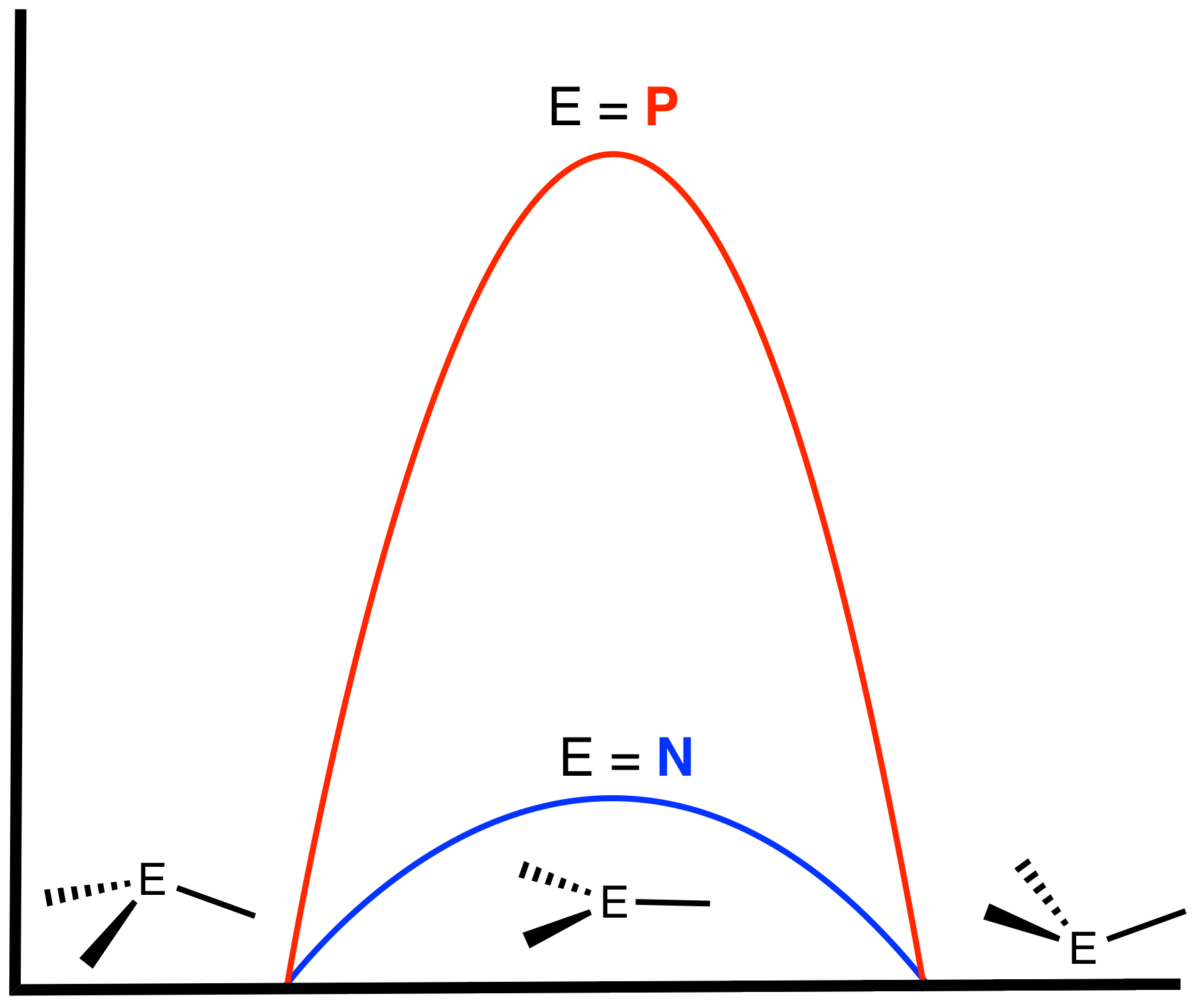 energy vs rxn coordinate for inversion of NR3 vs PR3